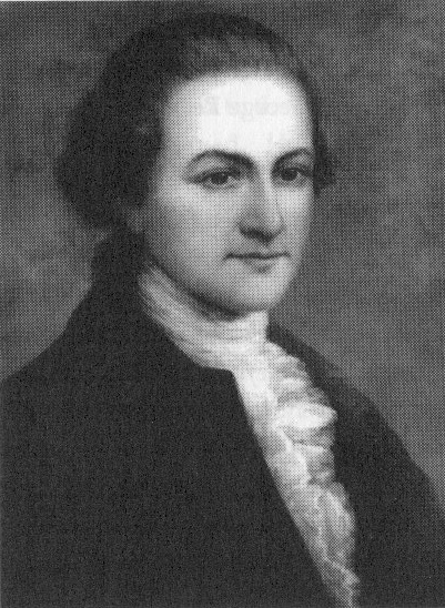 John M. Vining. Delaware Public Archives from: Martin, Roger A. (2003). Delawareans in Congress: The House of Representatives, Vol. One 1789-1900. Newark: Roger A. Martin. ISBN 0-924117-26-5.